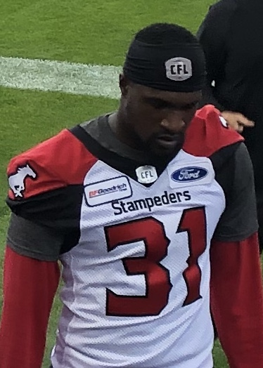 Tre Roberson, defensive back for the Calgary Stampeders.